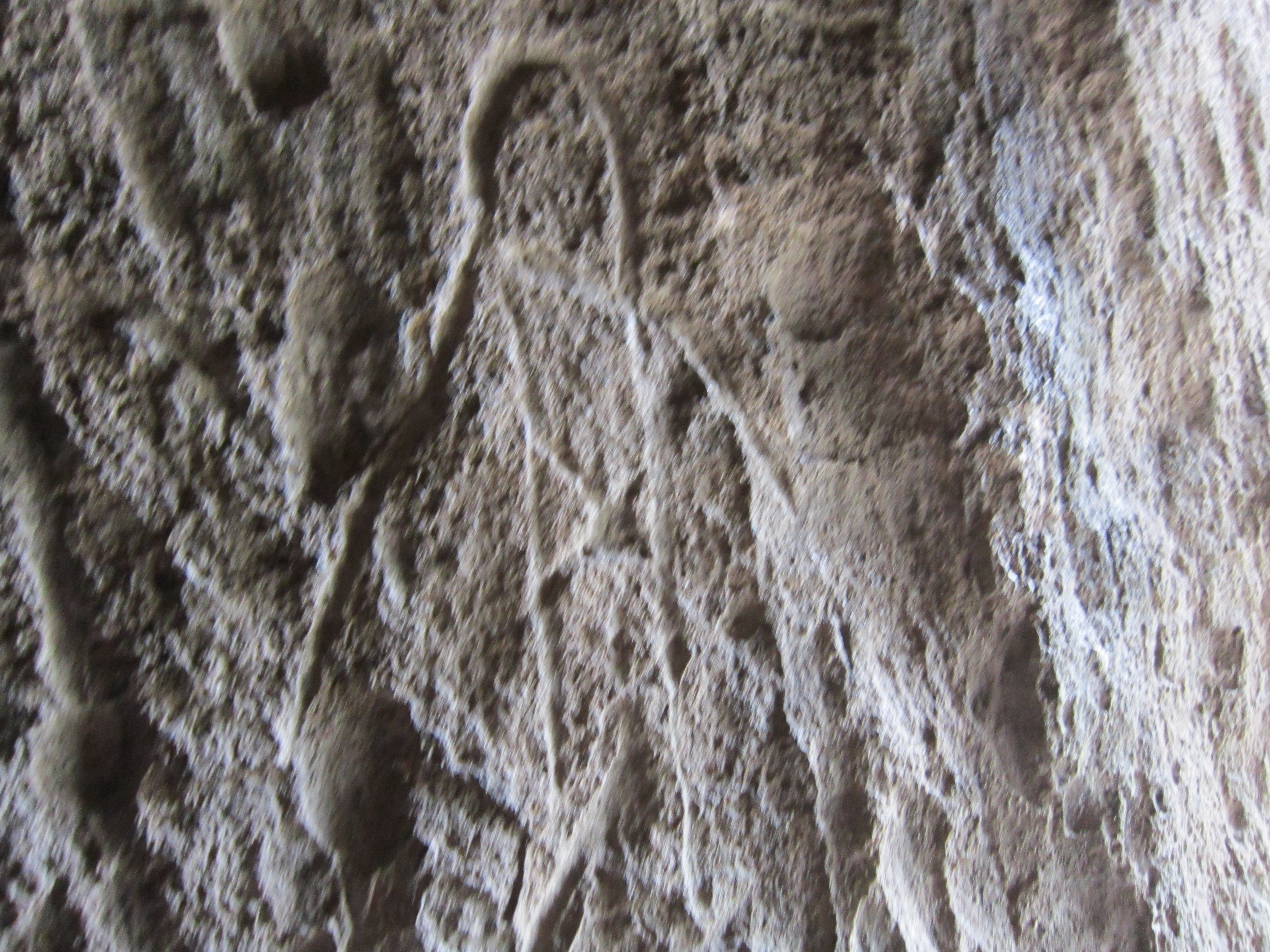 for wikipedia